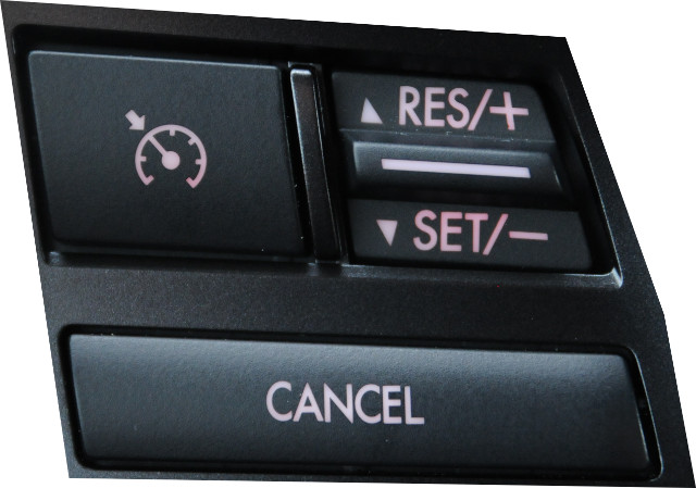 Cruise control buttons.